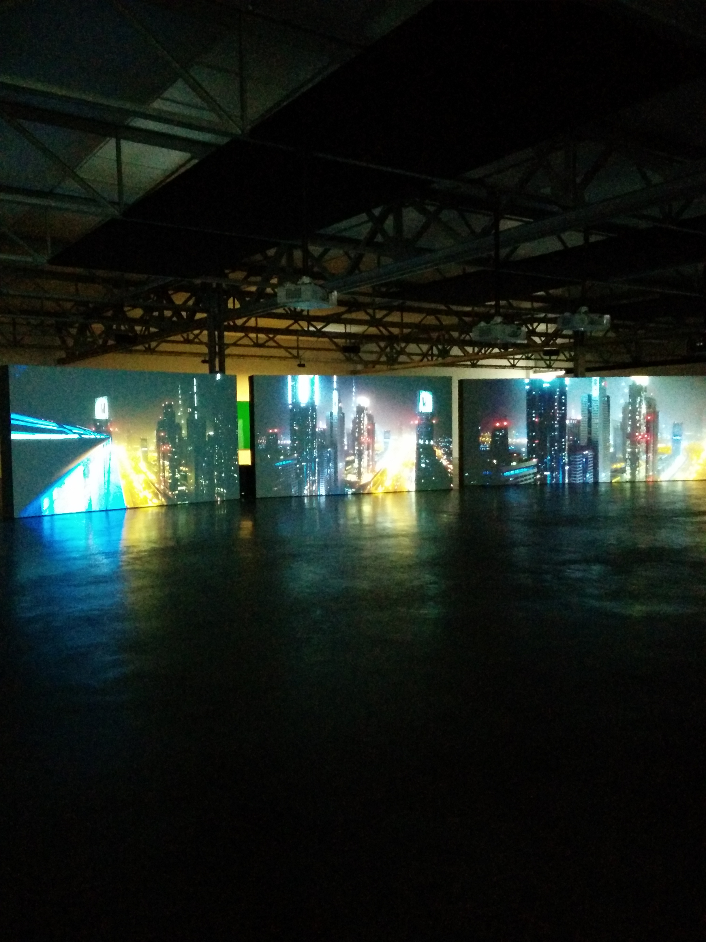 Isaac Julien's Playtime on display at De Pont Museum of Contemporary Art in Tilburg, Netherlands